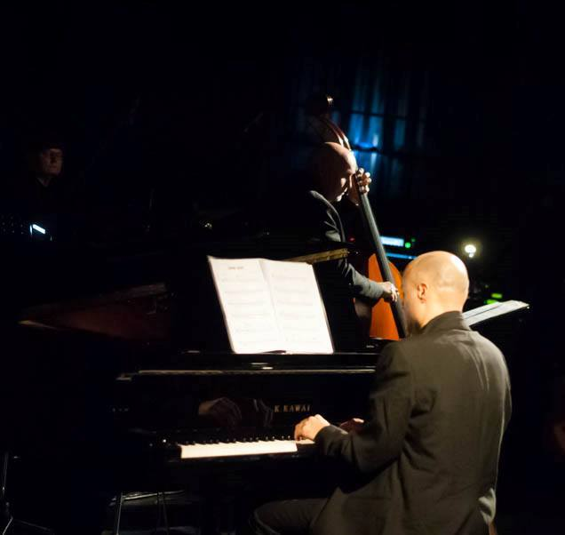 Dan's trio in EUROPAfest Bucharest Romania, May 2016, Photo by Camelia Şirli